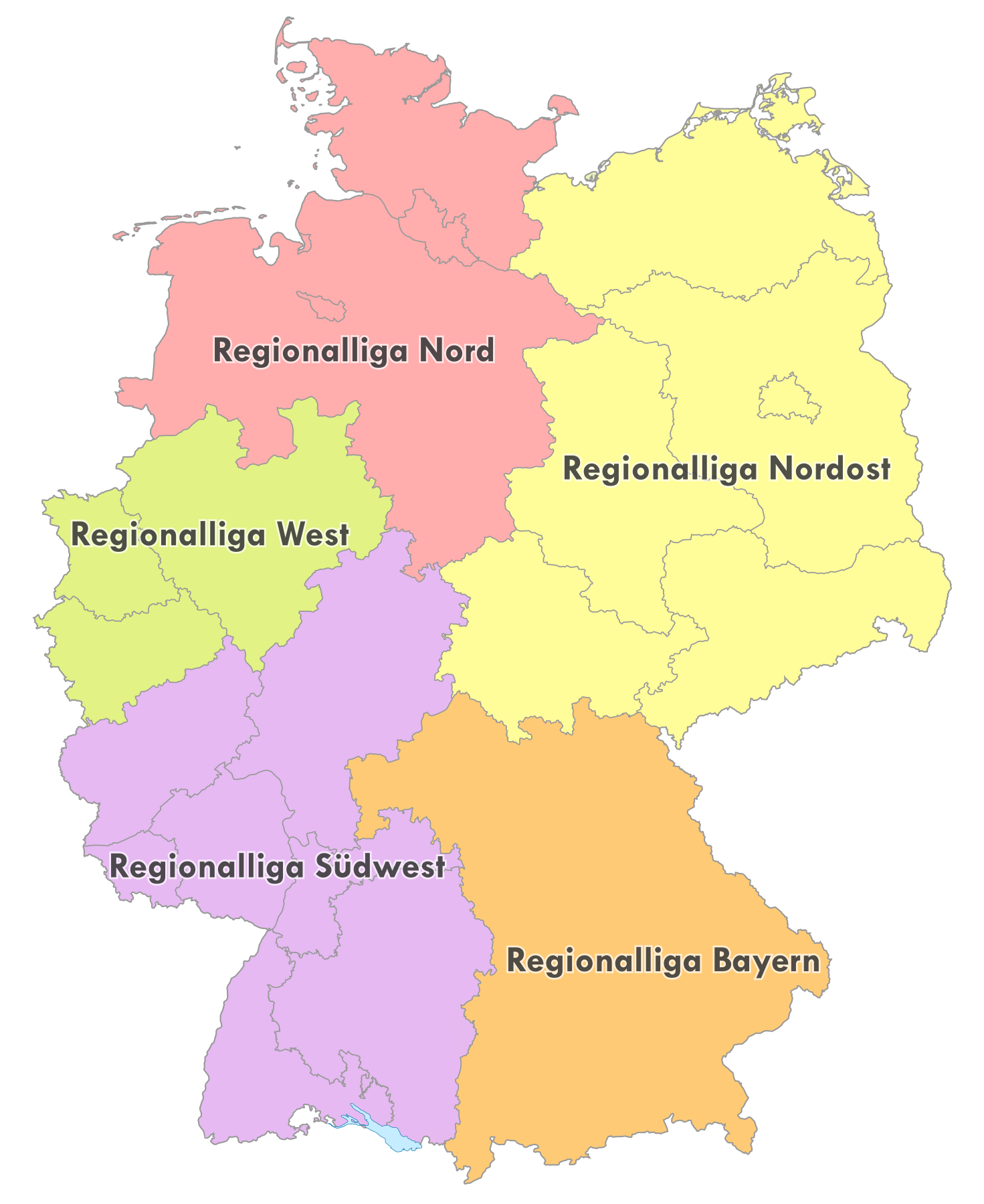 Map of German regional soccer league, starting 2012/13